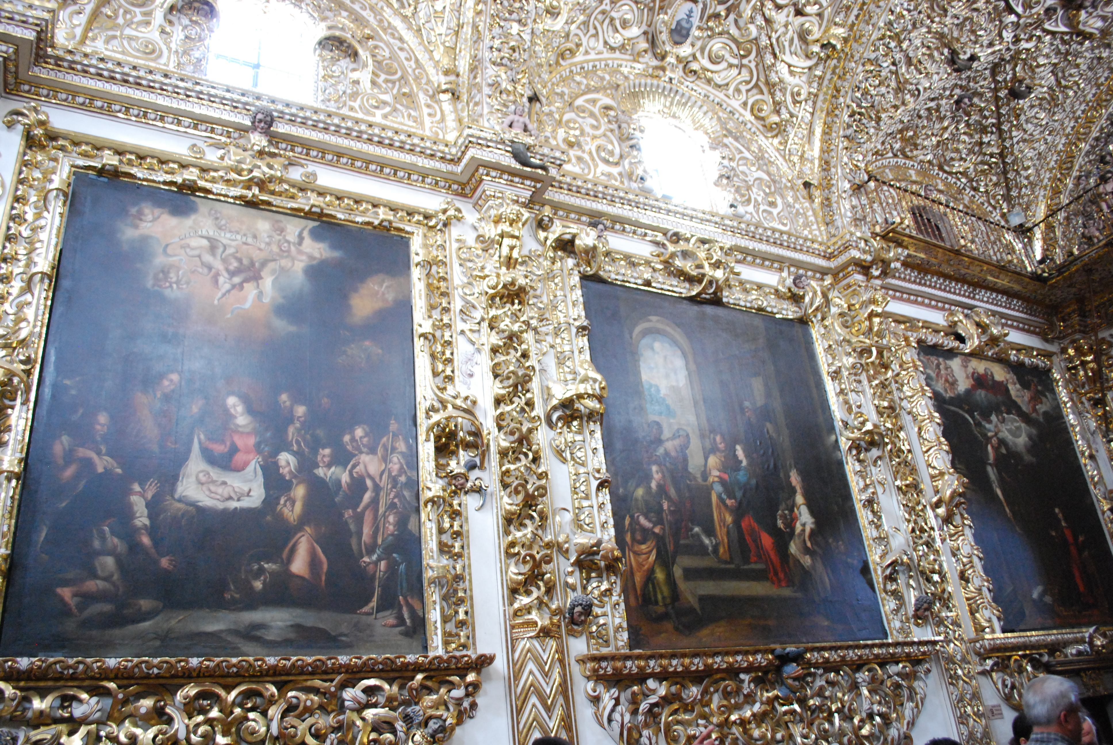 Side wall with paintings at the Capilla del Rosario in Puebla, Mexico